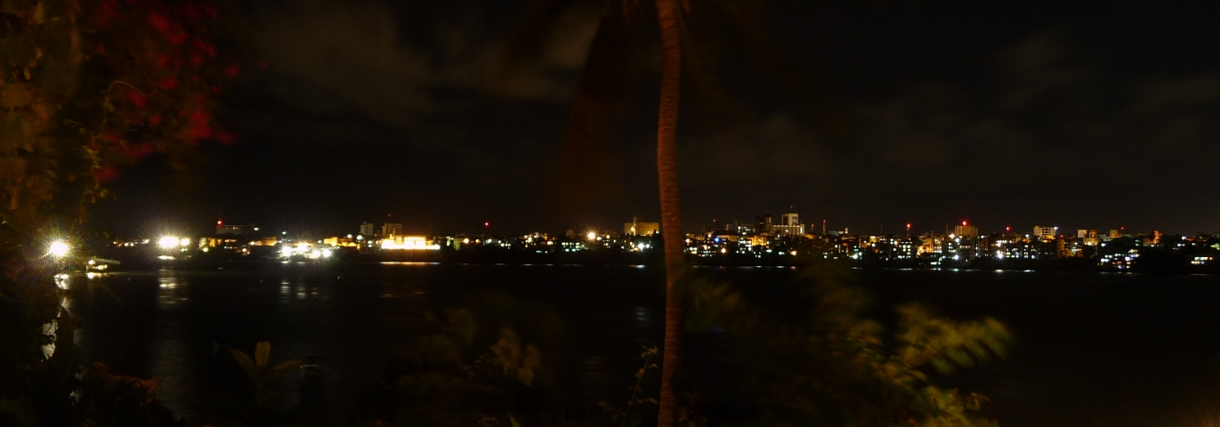 Mombasa by night